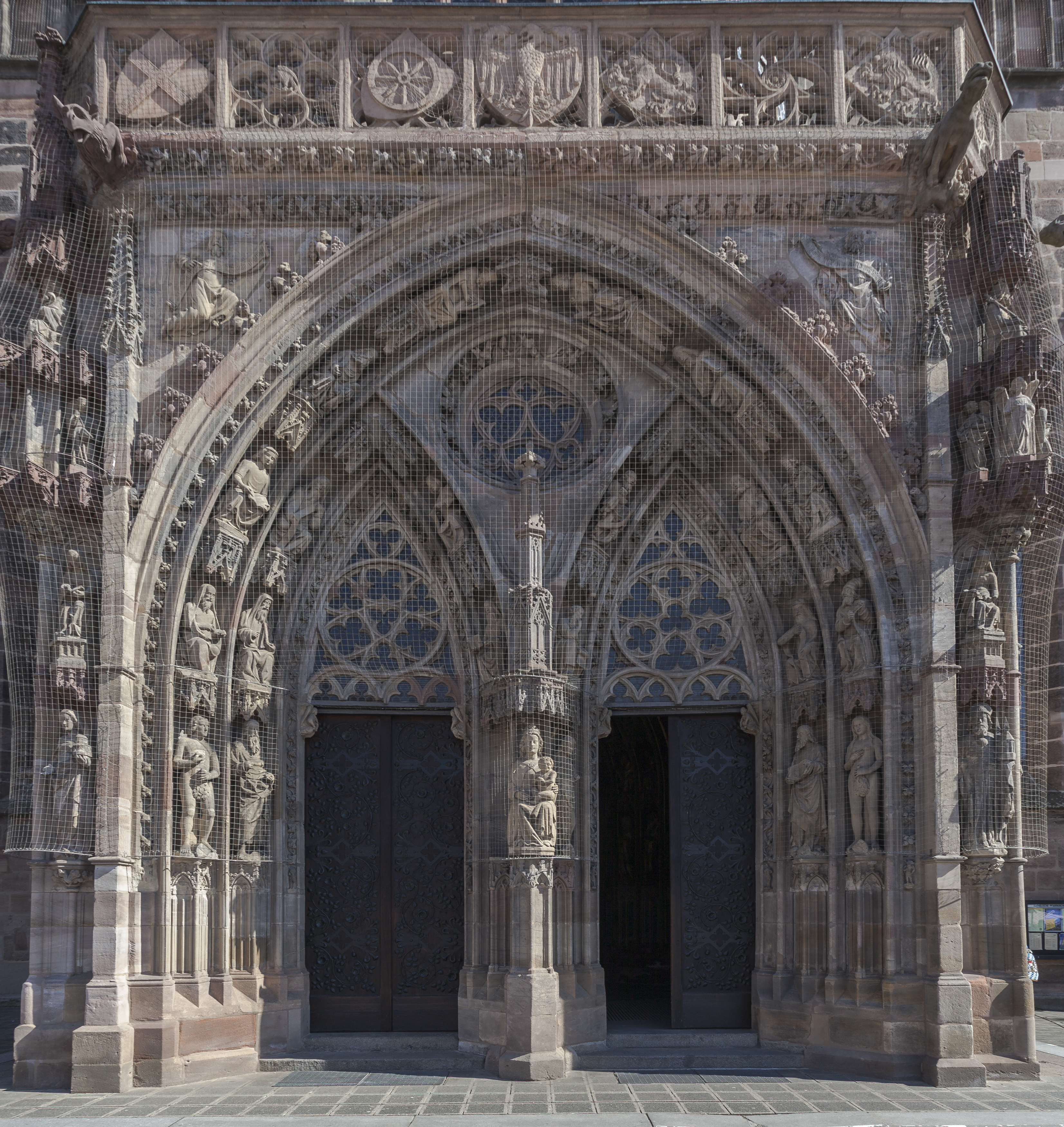 Church or Our Lady, Nuremberg, Germany